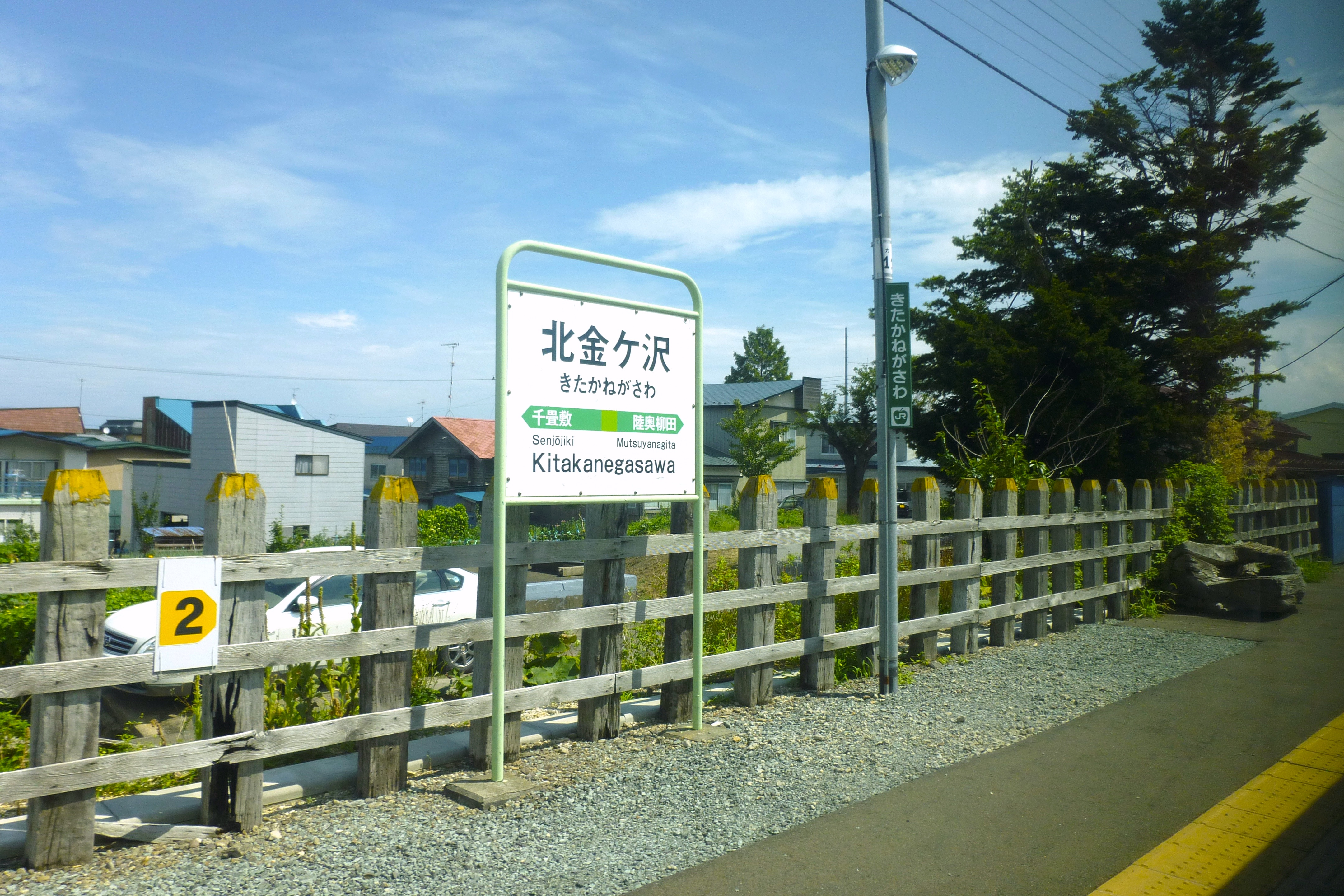 Kita-Kanegasawa Station (北金ヶ沢駅 Kita Kanegasawa-eki?) is a railway station on the JR East Gonō Line located in the town of Fukaura, Aomori Prefecture Japan.